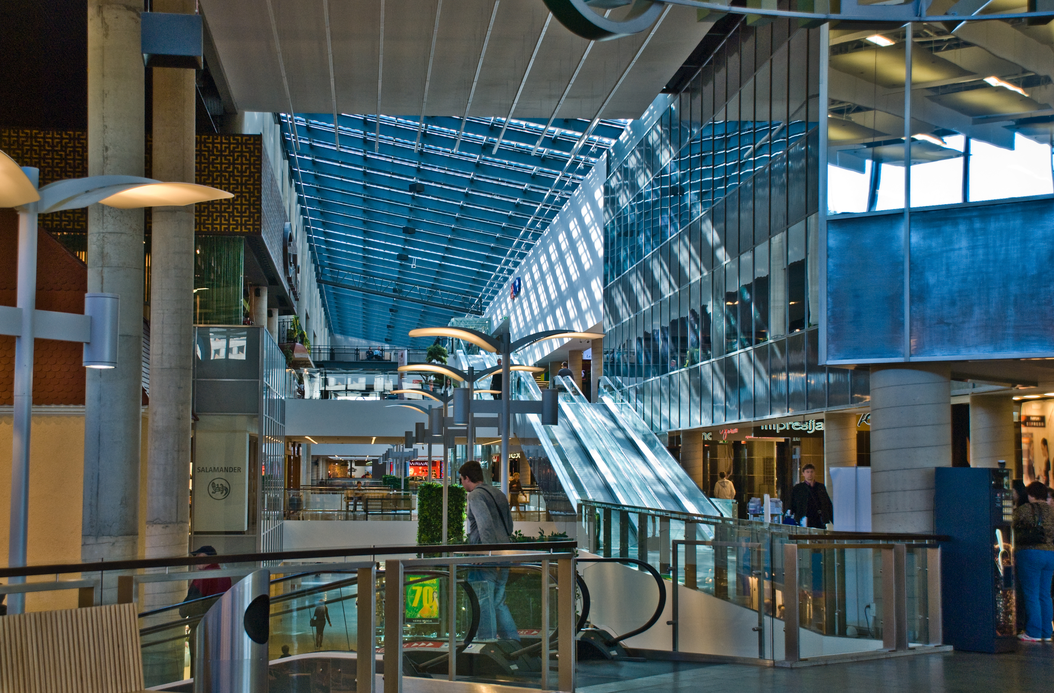 Akropolis Mall, Kaunas, Lithuania.